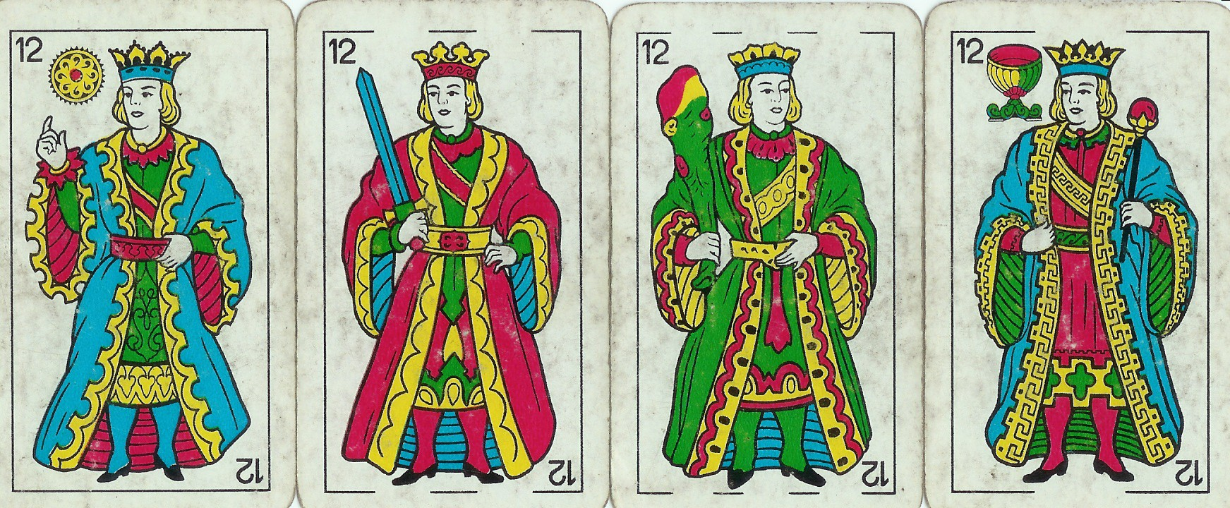 King of Coins, King of Swords, King of Batons, King of Cups: Four kings from a Spanish deck for Baraja